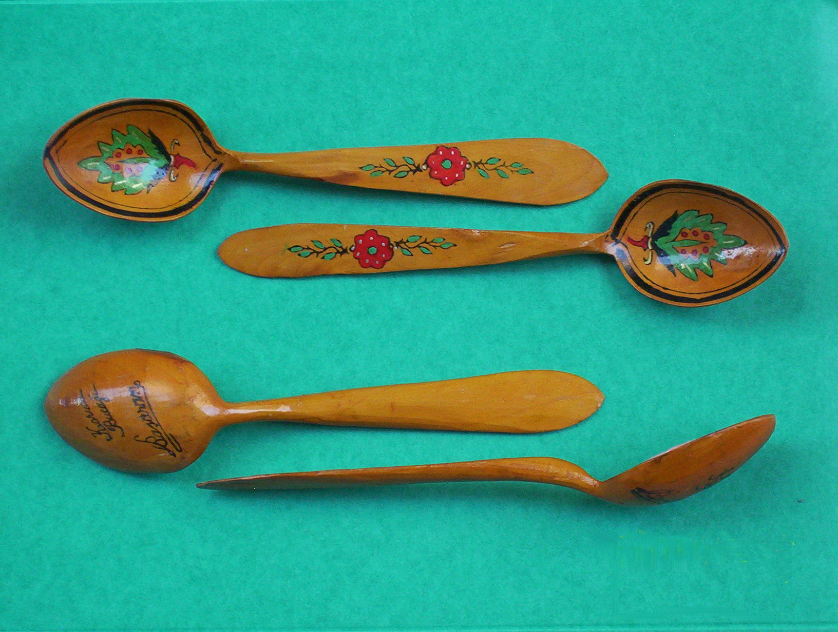 Wooden spoons used for Turkish folk dance (possibly not "real" dancing spoons, but souvenirs)